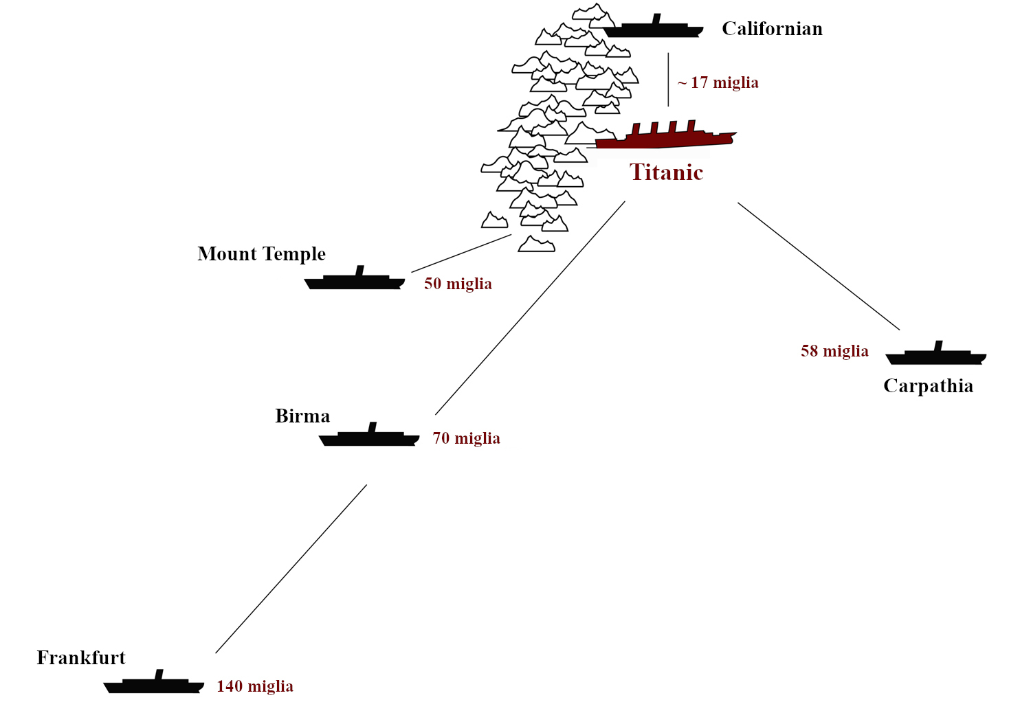 This image was improved or created by the Wikigraphists of the Graphic Lab (it). You can propose images to clean up, improve, create or translate as well.